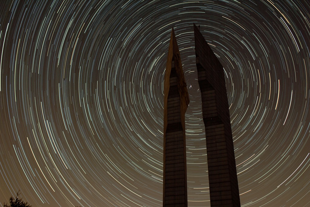 dirunal motion.